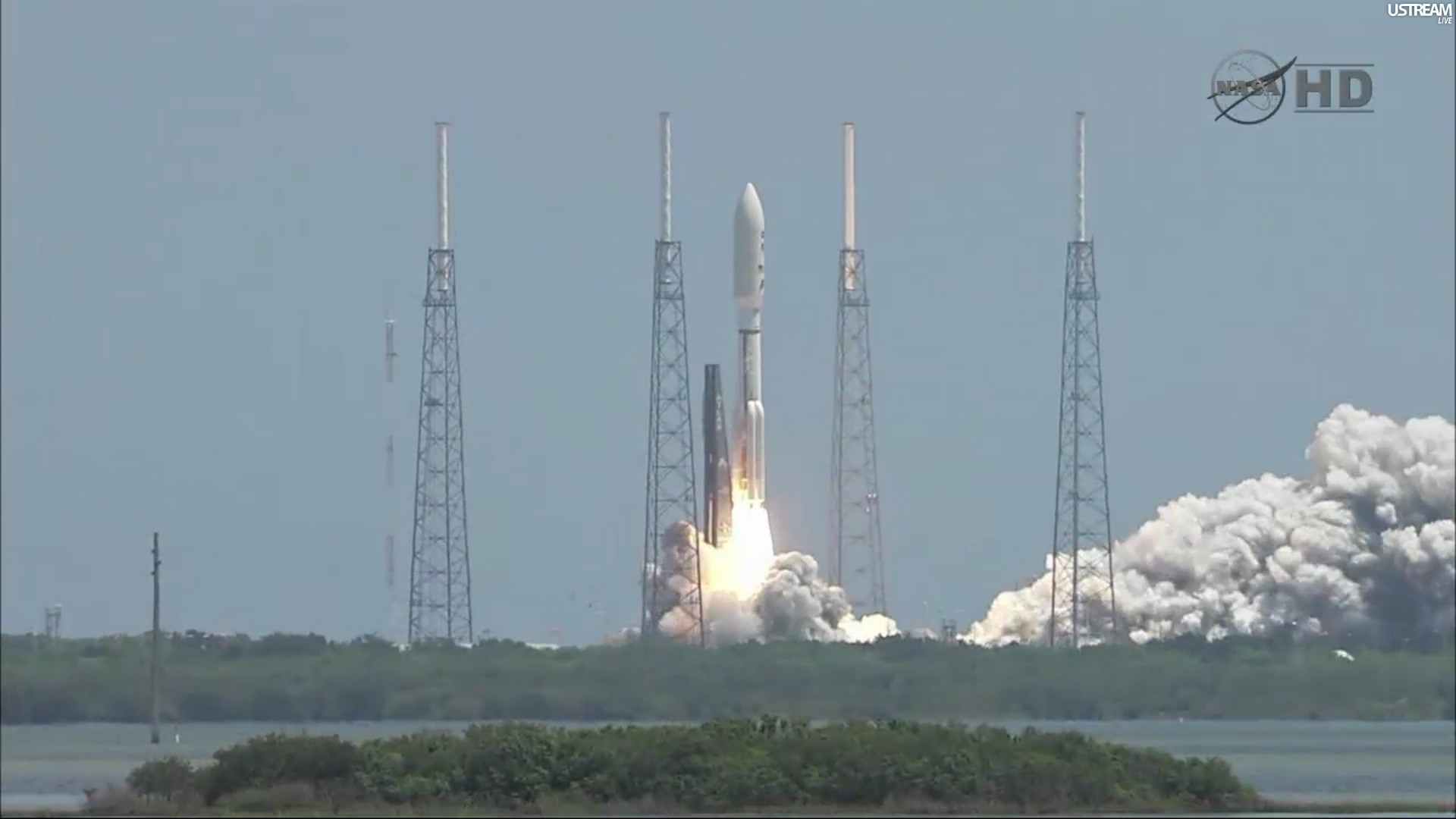 Launch of Juno on an Atlas V